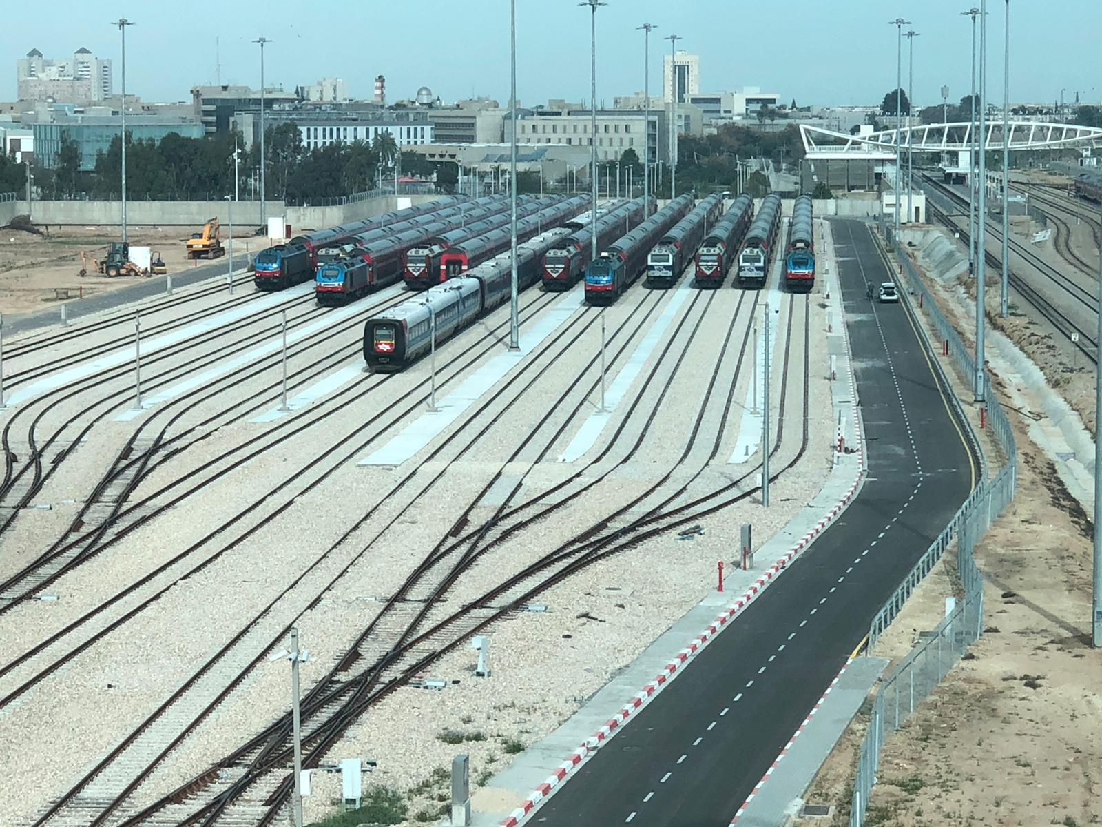 The stabling yard is full while Israel Railways' shutdown due to coronavirus pandemic. There are IC3, Bombardier Double-deck Coach and diesel locomotives of euro 4000 and JT 42BW.